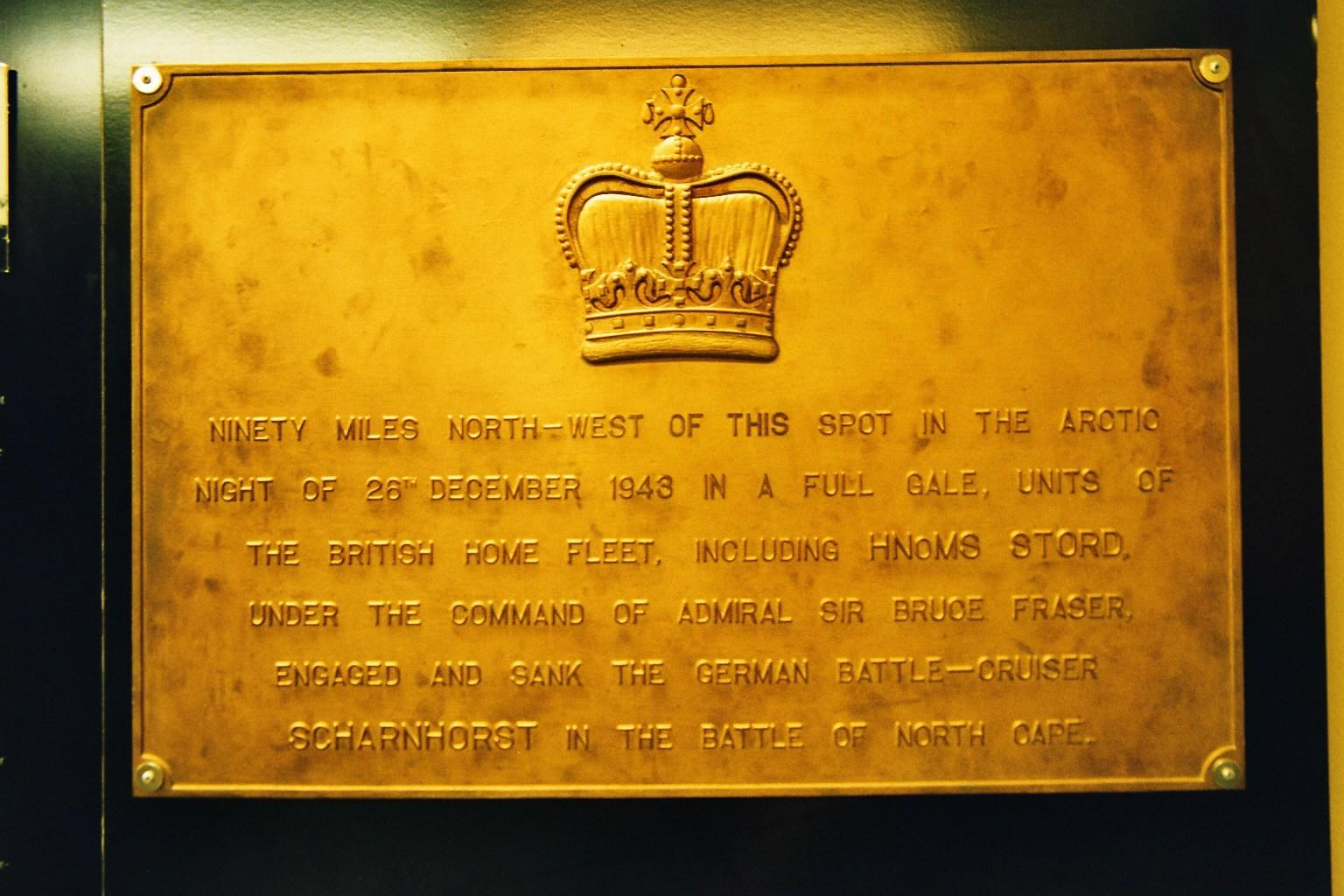 Commemorative plaque, remembering the battle of North Cape and the sinking of the Scharnhorst. Taken at the North Cape site center, Norway.